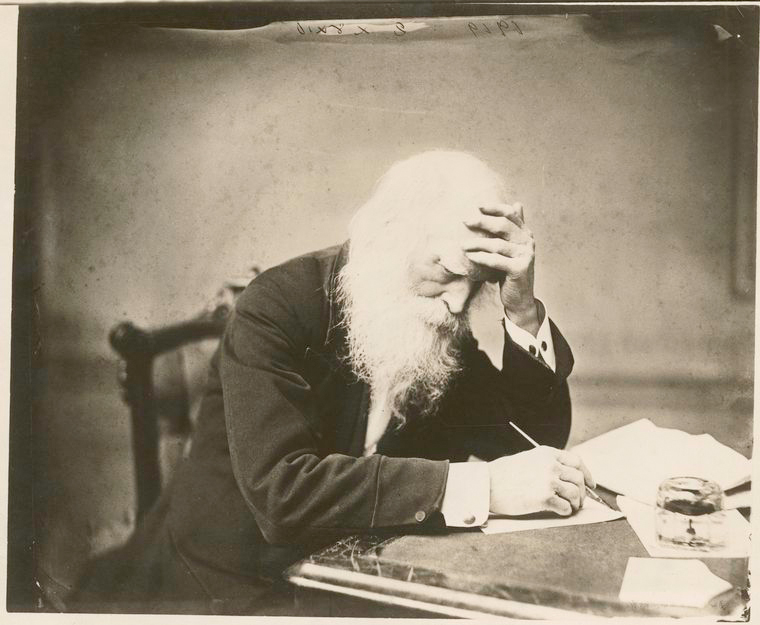 Photo of American poet William Cullen Bryant leaning over a desk and writing while holding his forehead.